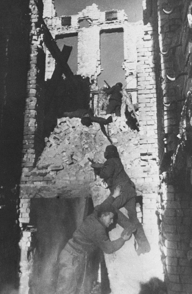 “Battle of Stalingrad”. Soviet soldiers during a street fight in Stalingrad. The 1941-1945 Great Patriotic War.